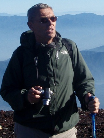 Dr. Petr Chrdle (1946-) - Esperantist of the Czech Republic